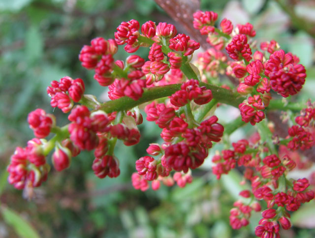 Pistacia terebinthus flowers